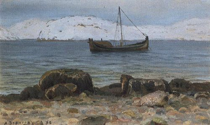 Murmansk harbour in March